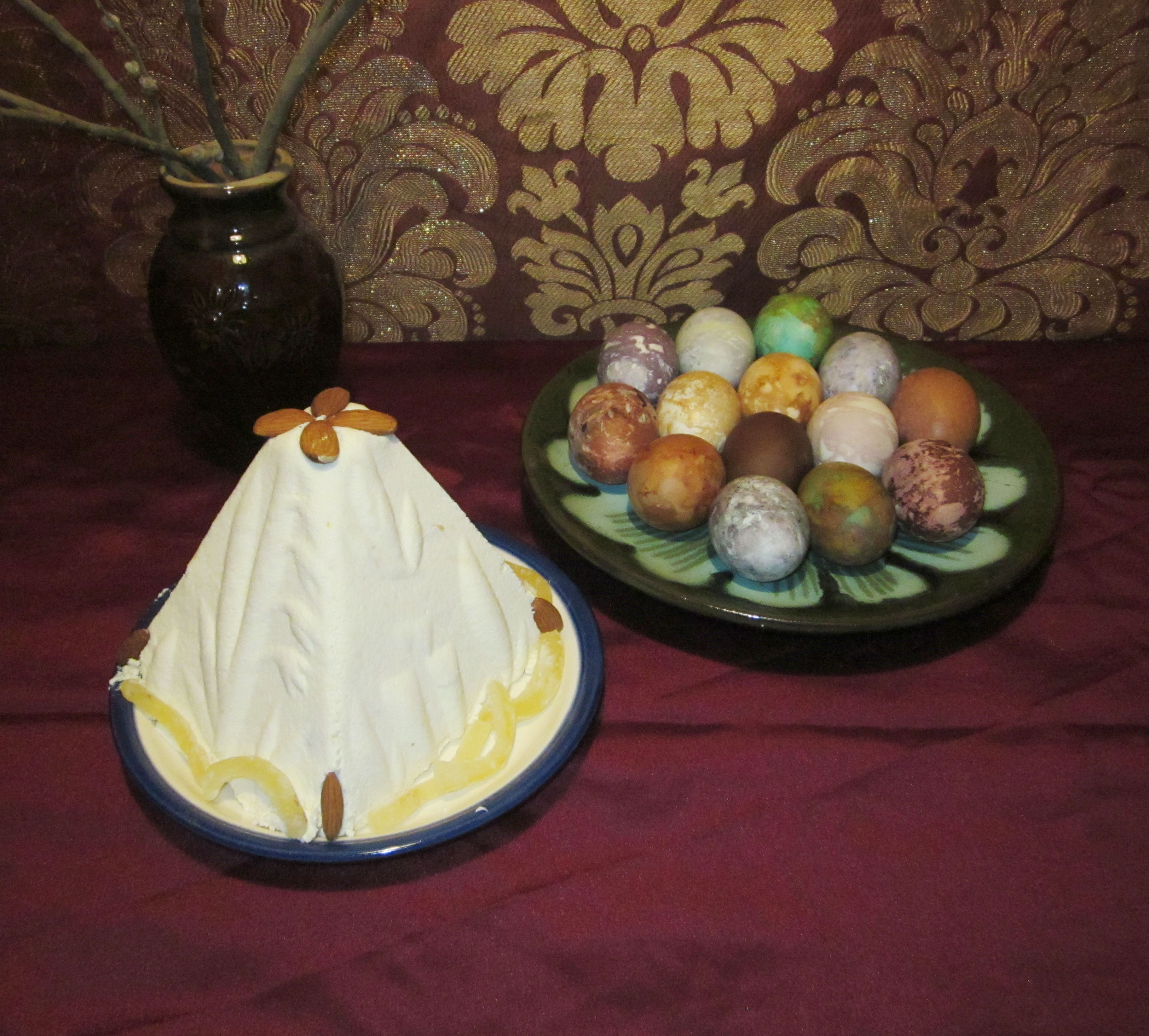 Paskha and plant-dyed Easter eggs. On the pasha are letters R. Ü. instead Russian XB - meaning 'Rõõmsaid Ülestõusmispühi' (Joyful Easter)